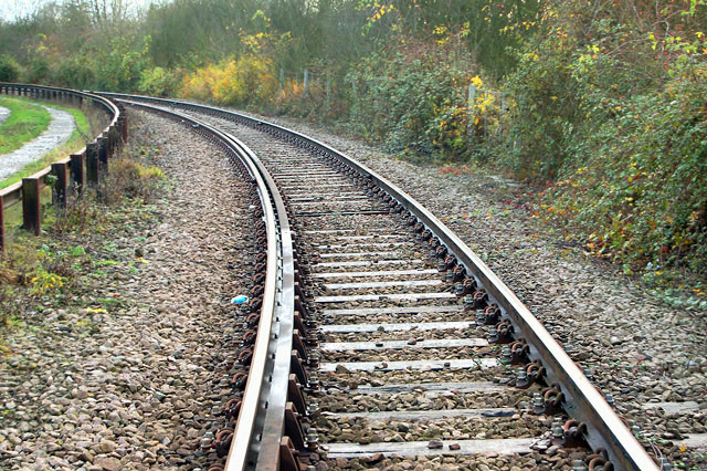 Ely West Curve single-track railway near Ely North Junction